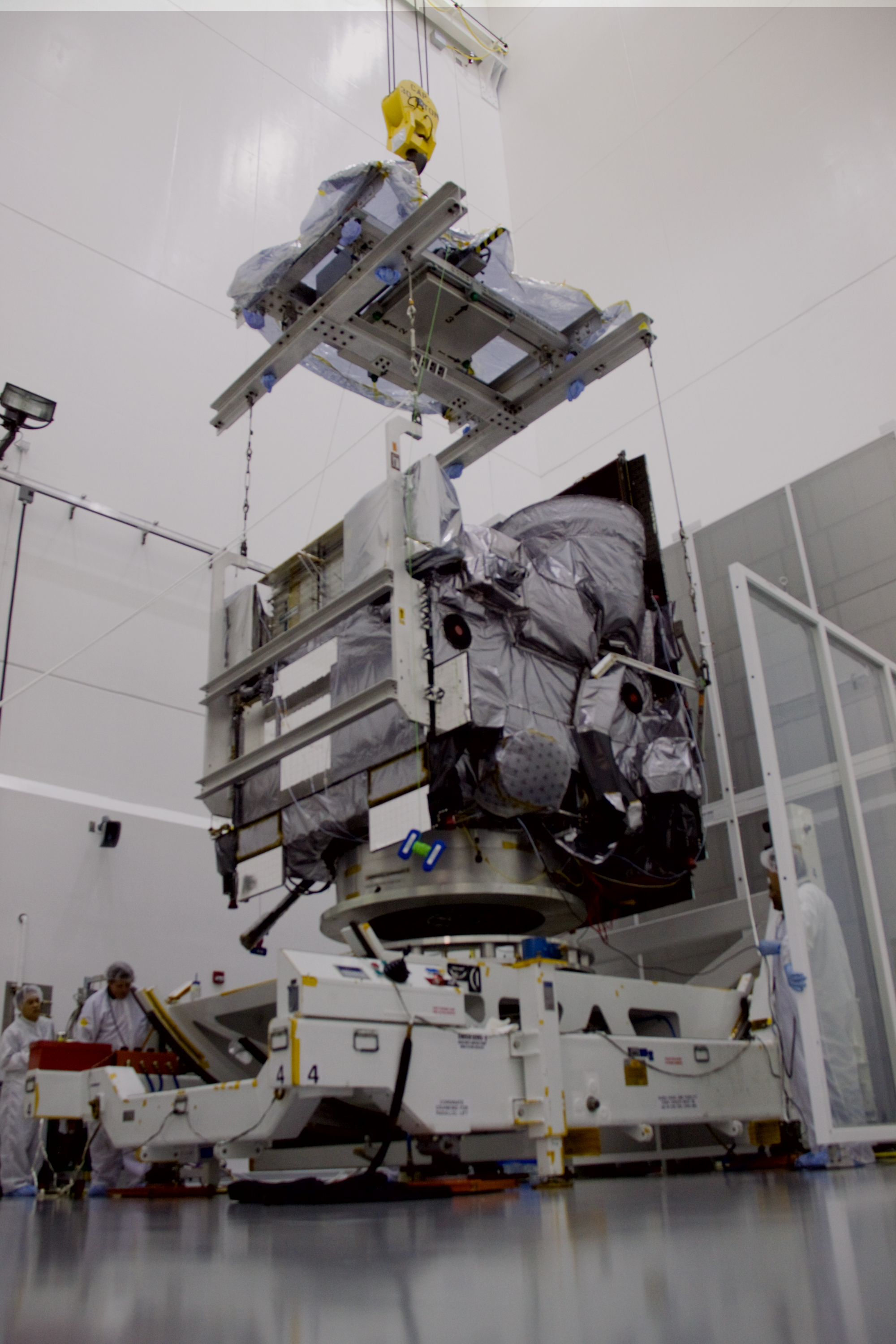 CAPE CANAVERAL, Fla. – At the Astrotech Space Operations facility in Titusville, Fla., NASA's GOES-P meteorological satellite is attached to a lifting device for its move to a fueling stand. The spacecraft will be loaded with the propellant necessary for orbit maneuvers and the attitude control system. GOES-P, the latest Geostationary Operational Environmental Satellite, was developed by NASA for the National Oceanic and Atmospheric Administration, or NOAA. GOES-P is designed to watch for storm development and observed current weather conditions on Earth. Launch of GOES-P is targeted for March 1 from Launch Complex 37 aboard a United Launch Alliance Delta IV rocket. For information on GOES-P, visit